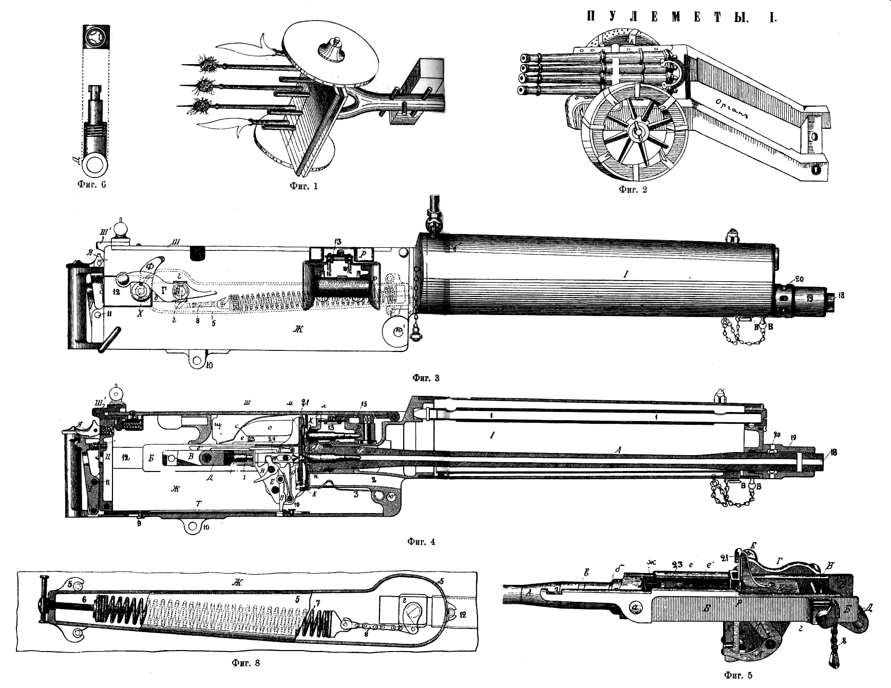 Machinegun Maxim drawing 1905 This image (or other media file) is in the public domain because its copyright has expired. This applies to Australia, the European Union and those countries with a copyright term of life of the author plus 70 years. You must also include a United States public domain tag to indicate why this work is in the public domain in the United States. Note that a few countries have copyright terms longer than 70 years: Mexico has 100 years, Colombia has 80 years, and Guatemala and Samoa have 75 years, Russia has 74 years for some authors. This image may not be in the public domain in these countries, which moreover do not implement the rule of the shorter term. Côte d'Ivoire has a general copyright term of 99 years and Honduras has 75 years, but they do implement the rule of the shorter term. This file has been identified as being free of known restrictions under copyright law, including all related and neighboring rights.